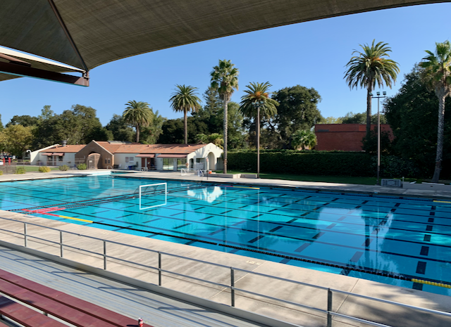 Dunlevie Aquatic Center pool at Sacred Heart Schools, Atherton